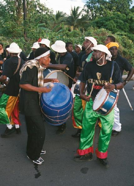 Tagged "Dominica", likely a Carnival band